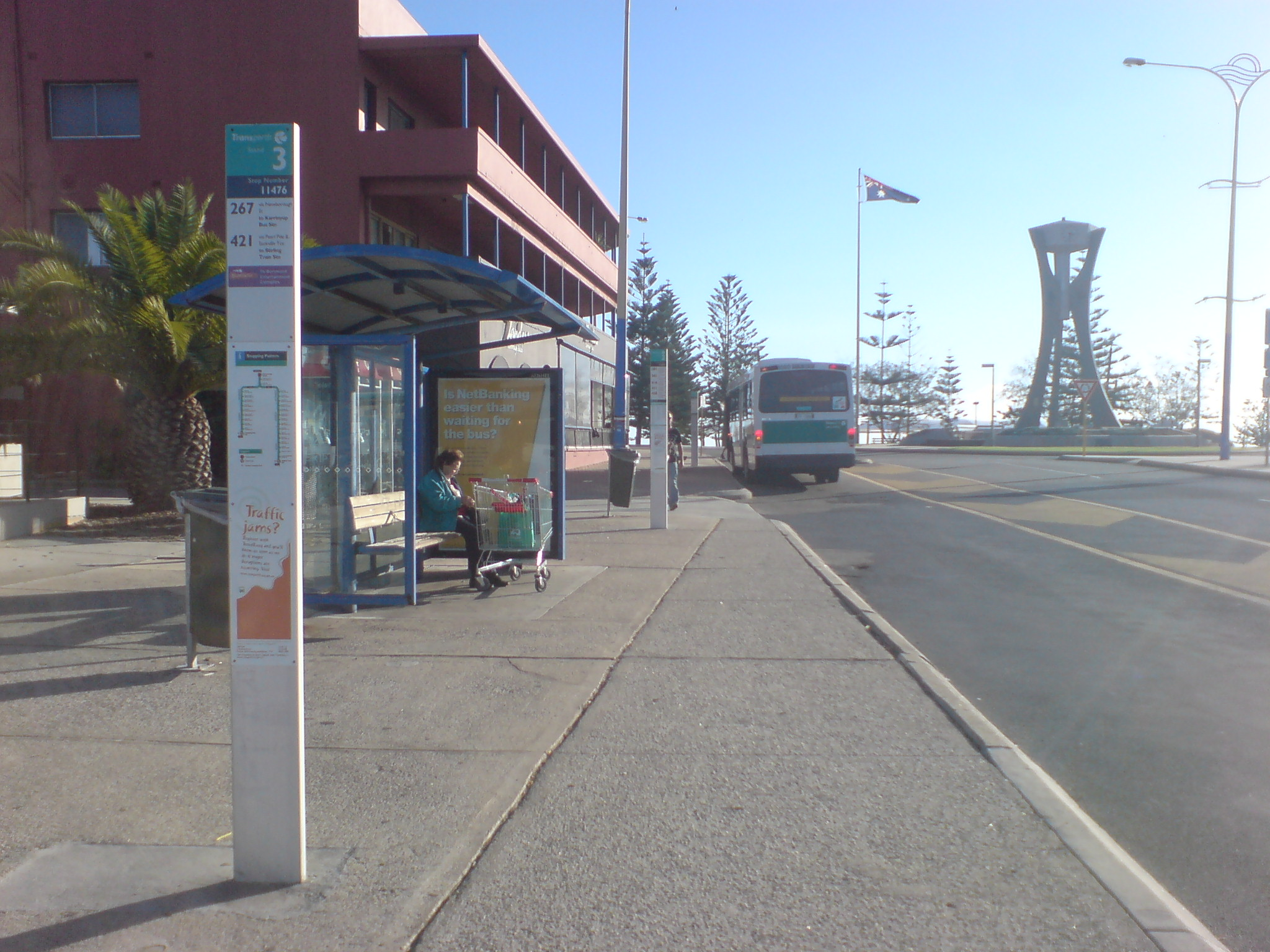 Bus stops at Scarbrough Beach Terminus.